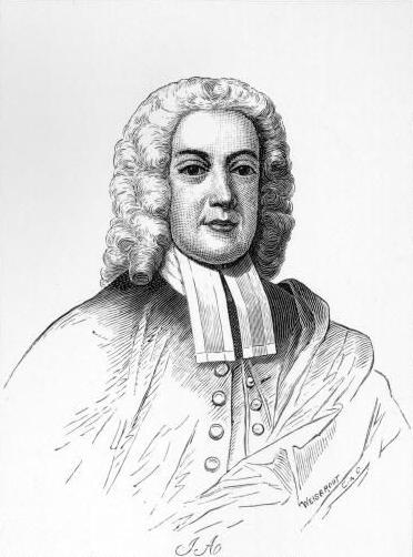 Portrait of Thomas Prince